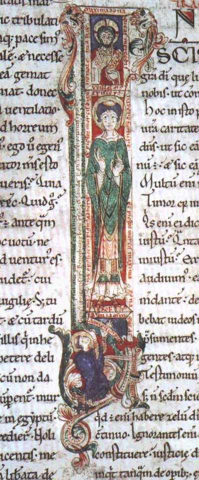 Detail of folio 102r from an 11th Century manuscript of St Augustine's Commentary on the Psalter, volume 2. Initial I inhabited by William of St. Calais, Bishop of Durham. At Williams feet is a self portrait of Robert Benjamin, the scribe.